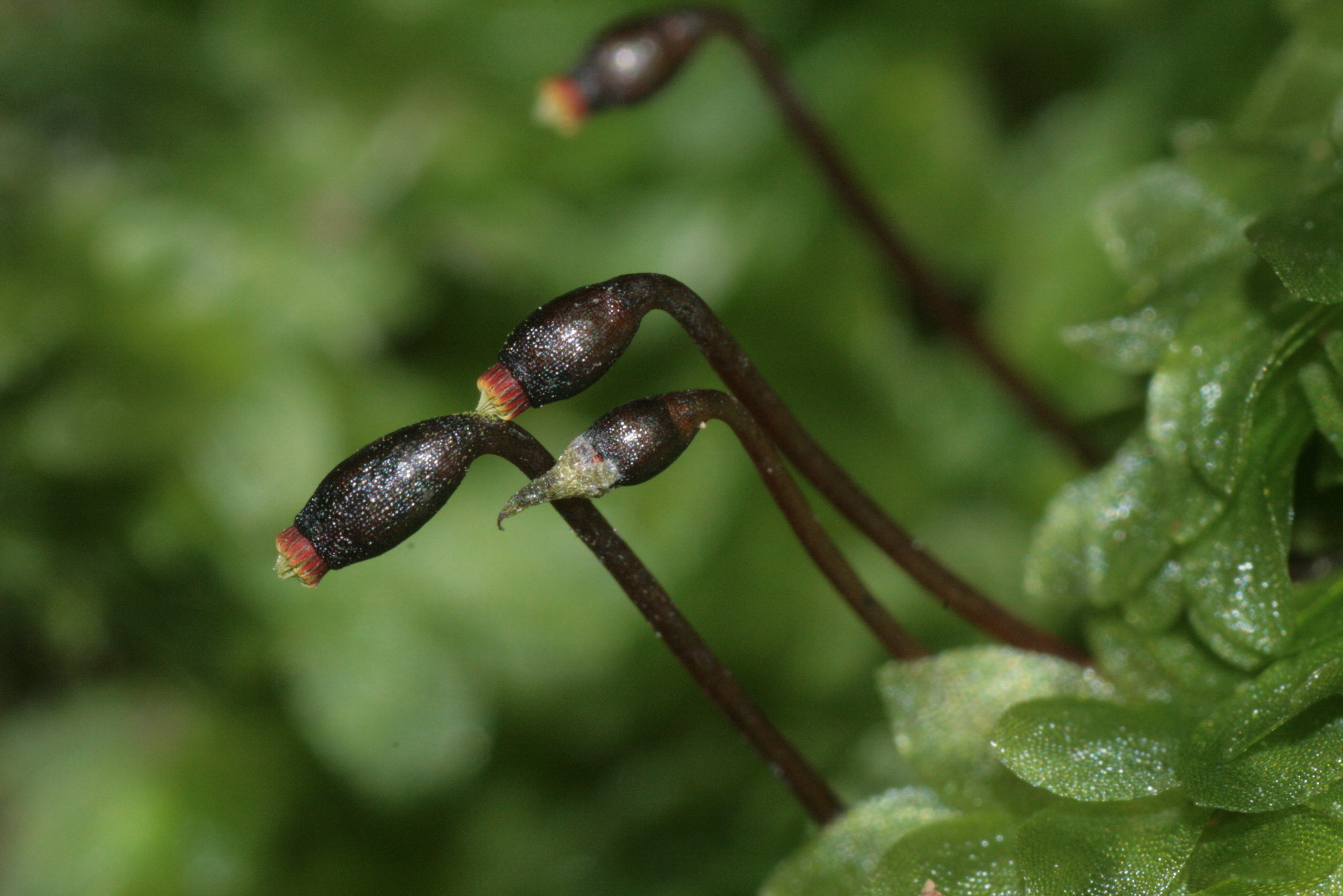 Hookeria lucens